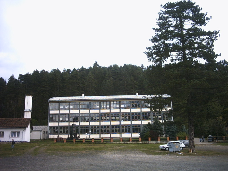 The primary school in Pribinic, Teslic, R. Srpska, Bosnia-Herzegovina